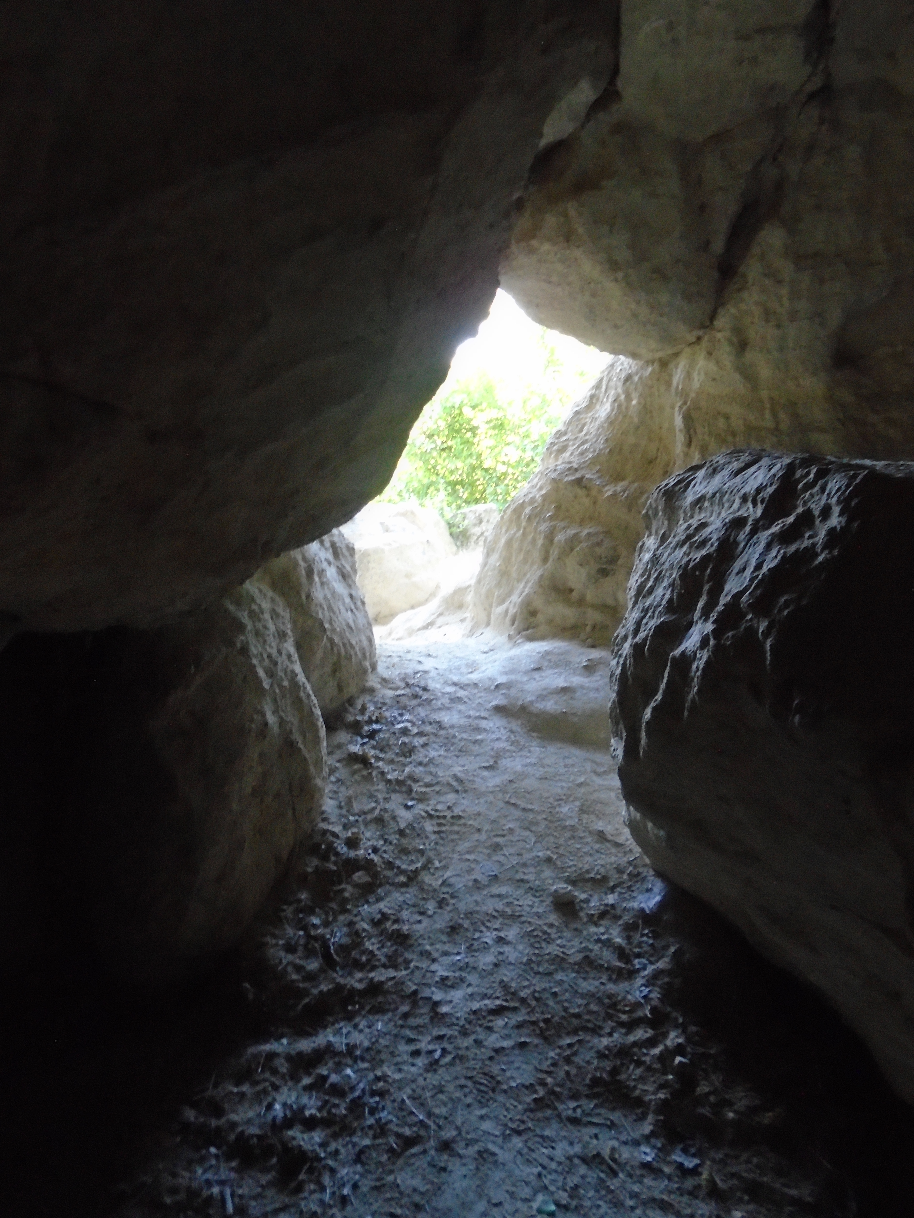 Inside of right side passage of Zelezna Baba Cave.